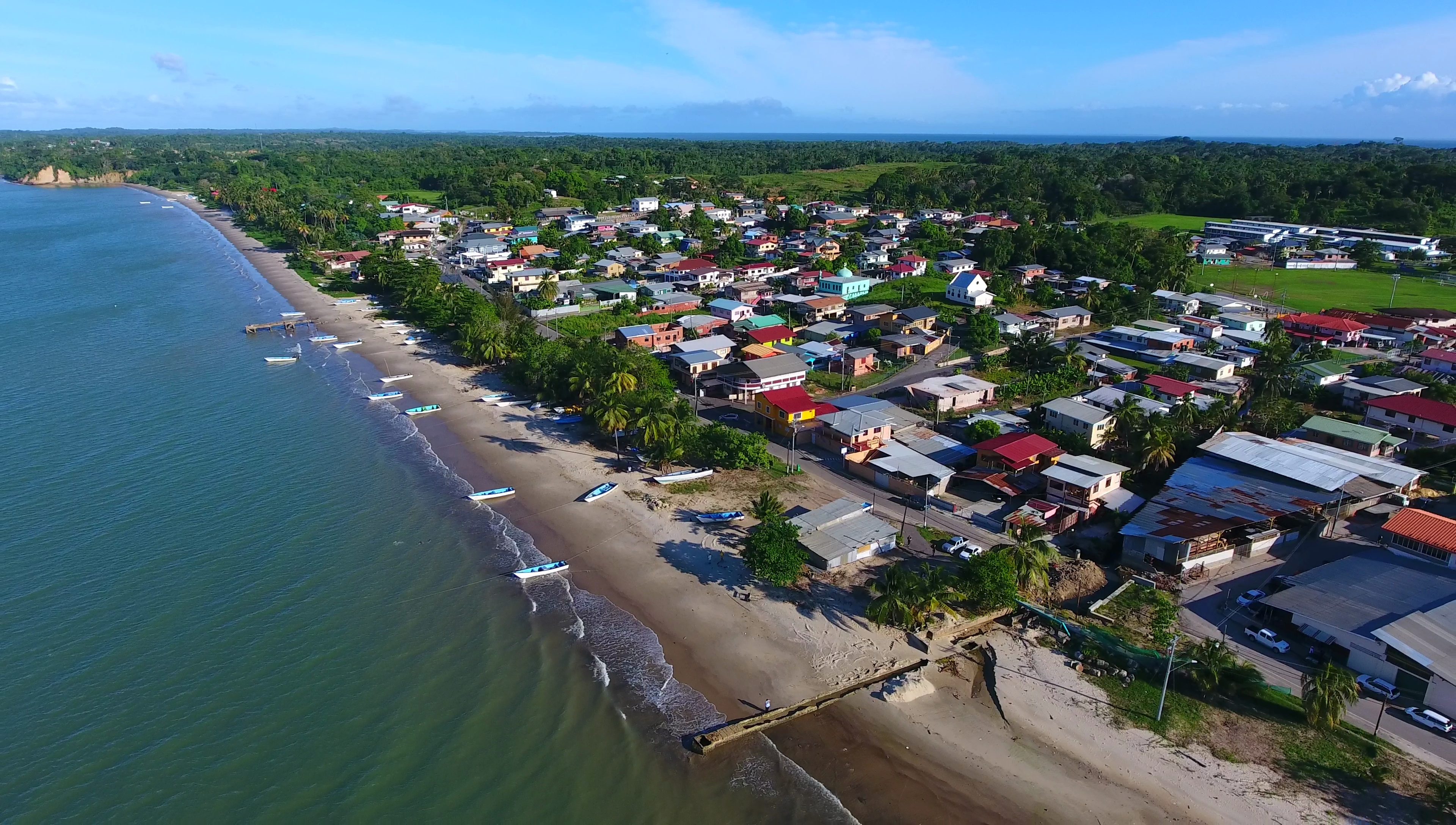 Cedros, Siparia, Trinidad and Tobago. Water body left: Cedros Bay (Gulf of Paria). Water body background: Islote Bay (Columbus Channel/Boca del Serpiente). Photo taken as part of the Southern Trinidad Aerial Photo Project, a small project sponsored by WMDE. Drone used: DJI Phantom 4. Snapshot taken from video footage via VLC.